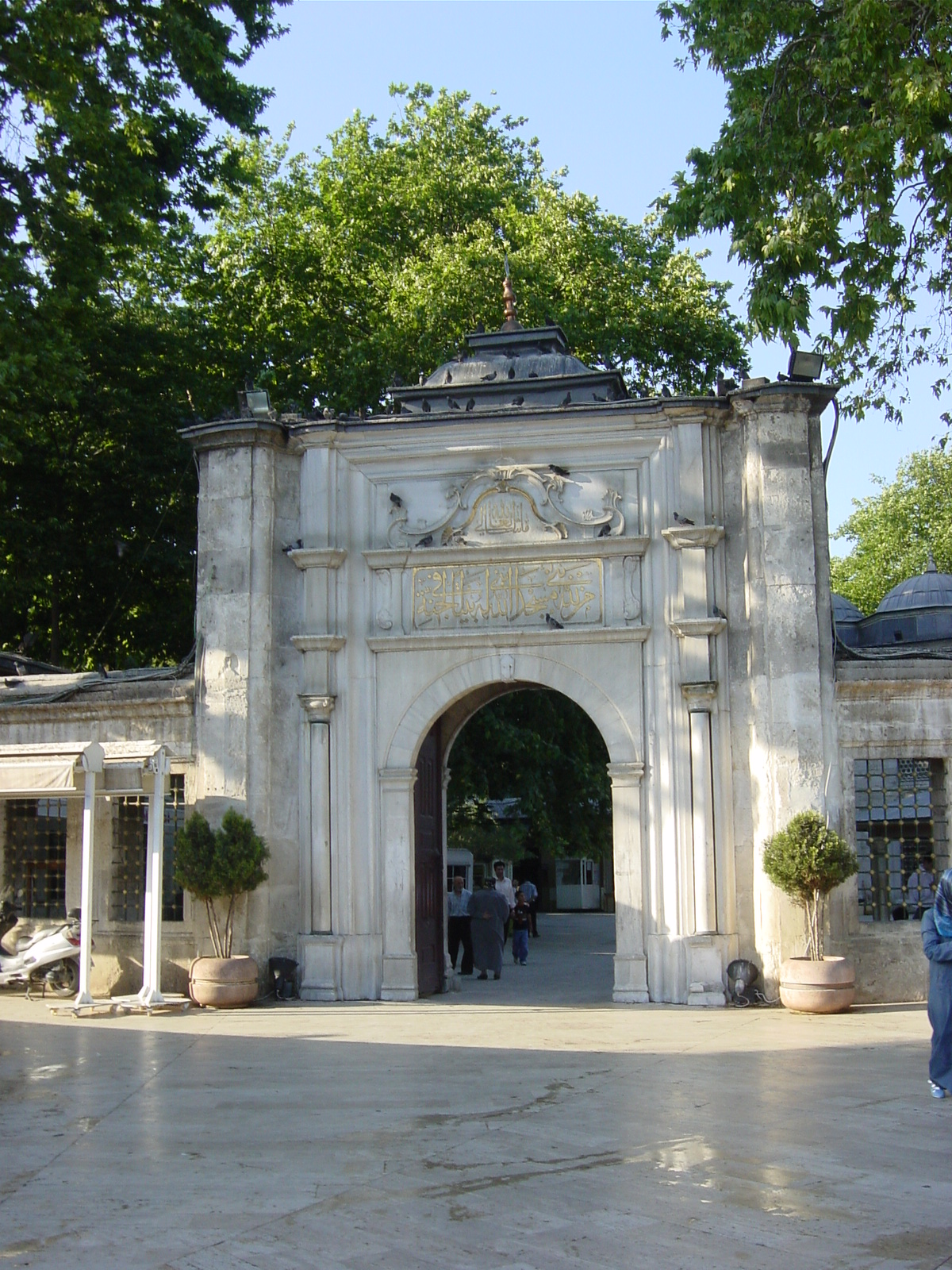 Istanbul - Main entrance to the sanctuary containing the türbe (funerary mausoleum) and the mosque in Eyüp. - Picture by: Giovanni Dall'Orto, May 30 2006.